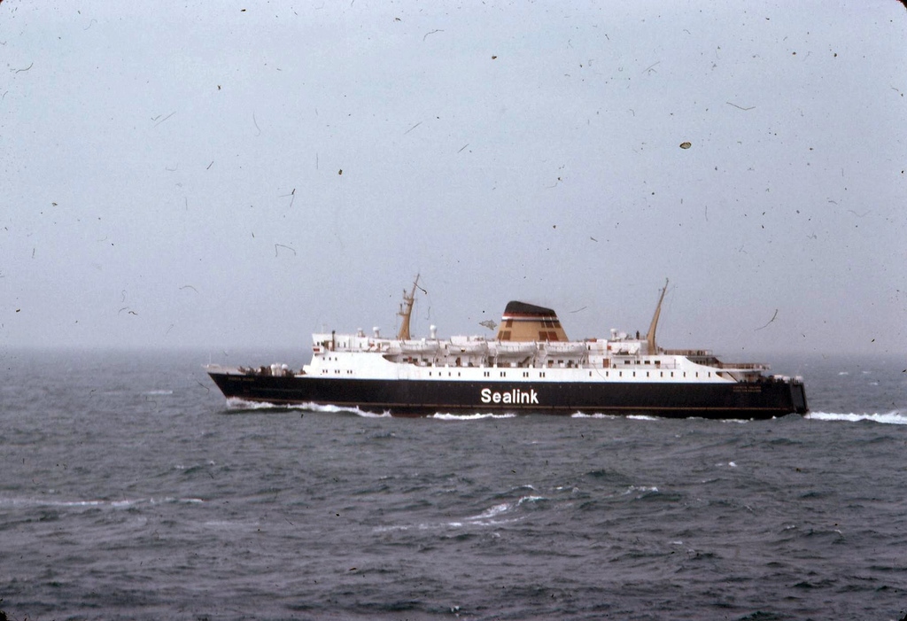 The ferry Koningin Juliana at sea on October 17, 1968. Built. 1968 Yard. Cammell Laird Class of Ship. Passenger Ferry Operator. SMZ Route. Harwich – Hook of Holland 1968-1994 Length. 131m. Gross Tonnage. 6682 Passengers. 1200 Speed. 21 Knots Status. Sank 1998 Built in 1967 by Cammell Laird of Birkenhead as Koningin Juliana for Stoomvaart Maatschappij Zeeland of the Netherlands, it was used on the Harwich to Hook of Holland route until 1984 until sold to Navarma Lines and renamed Moby Prince. Fire At 22:03 on April 10, 1991, the Moby Prince left Livorno, heading to Olbia for a regular service, manned by a complement of 65 crew and 75 passengers. The ship was commanded by Ugo Chessa. While taking the usual dedicated route out of the harbour, the ferry's prow struck the Agip Abruzzo, which was standing at anchor, and sliced through its tank number 7. The tank was filled with 2700 tons of Iranian light crude oil. At 22:25, the ferry's radio operator broadcast a Mayday from the portable VHF transmitter. The charred hull was moored at Livorno until 17 May 1998, when she made water and sank. The rusty wreckage was later raised and towed to Aliaga, Turkey to be scrapped. The sinking of the Moby Prince was the worst disaster for the Italian merchant navy since the end of World War II.